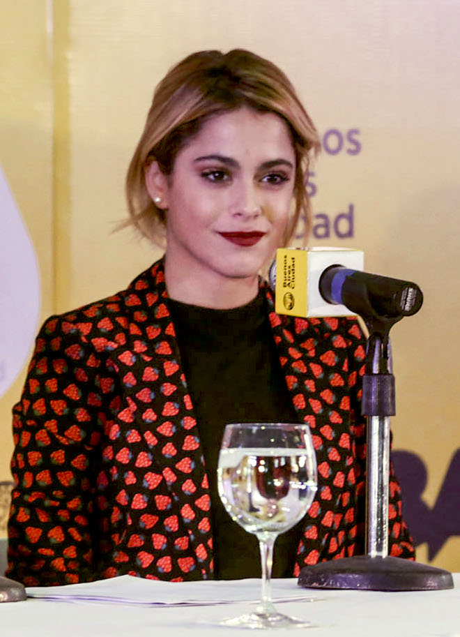 Argentine singer and actress Martina Stoessel during a press conference in the "Usina del Arte" of Buenos Aires.